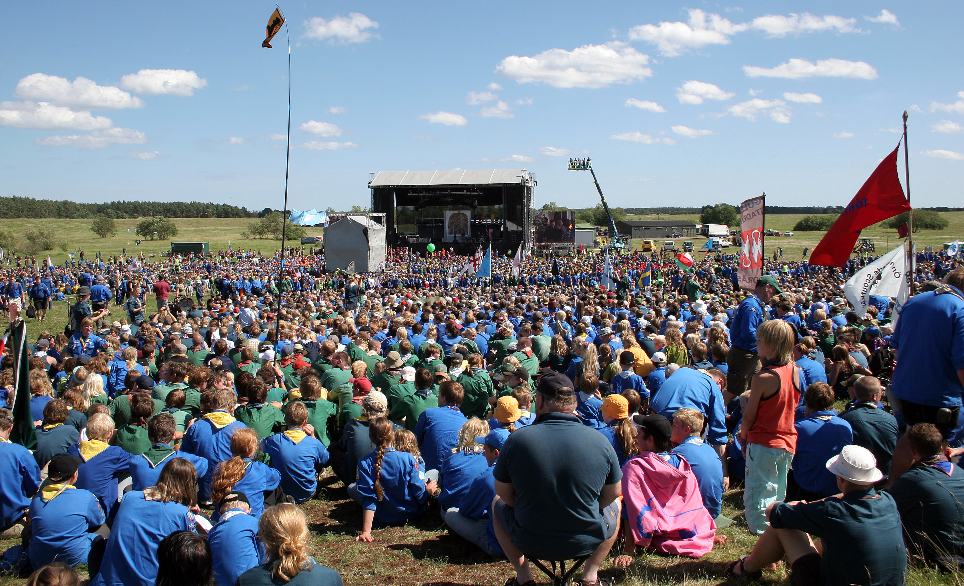 Scouts gathering for the opening ceremony at Jiingijamborii national jamboree in Rinkaby, Sweden.